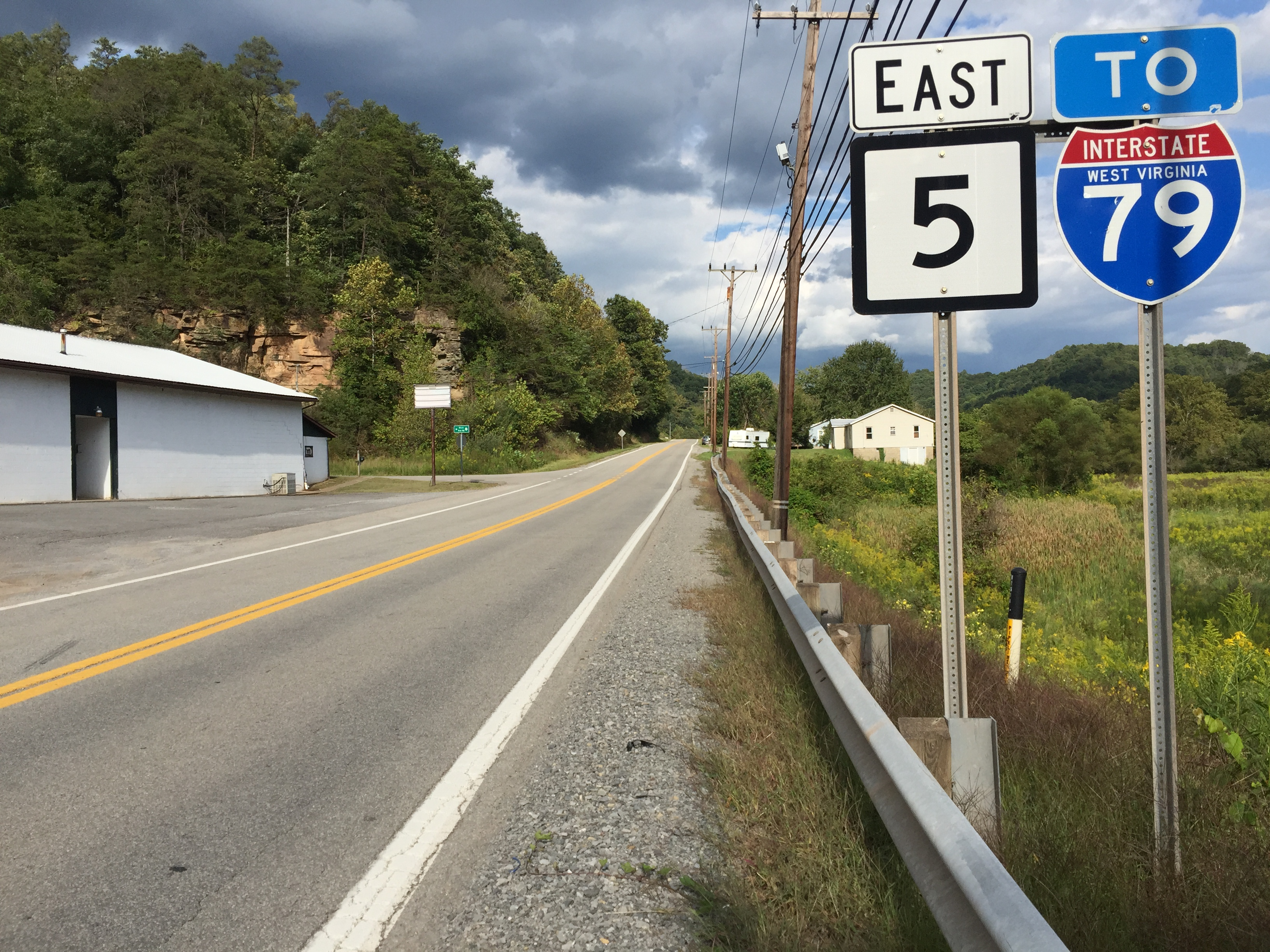 View east along West Virginia State Route 5 at Gluck Run Road (Gilmer County Route 35/16) in Truebada, Gilmer County, West Virginia